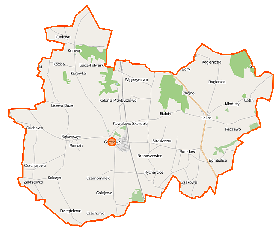 Map of Gmina Gozdowo, Poland This map of Gozdowo (gmina) was created from OpenStreetMap project data, collected by the community. This map may be incomplete, and may contain errors. Don't rely solely on it for navigation. Border coordinates52.801919.5797←↕→19.834152.6731